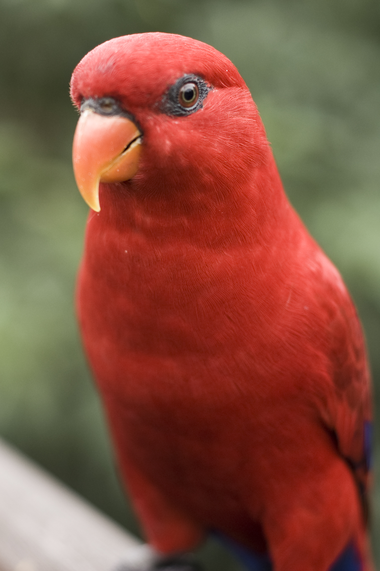 Red Lory in captivity.